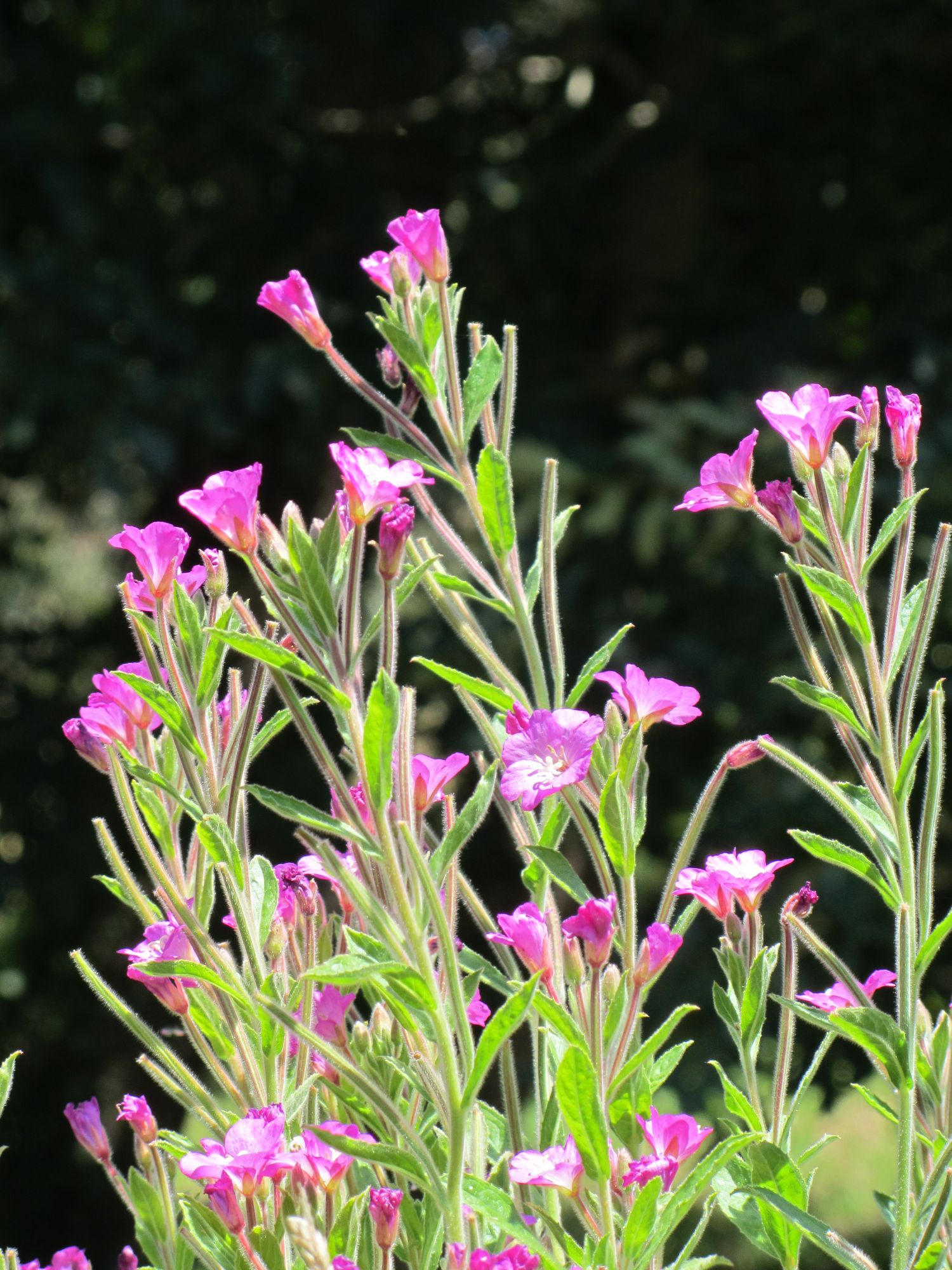 Great willowherb, Epilobium hirsutum. This photograph was taken on 2011-06-25 at Berango in the Bizkaia province of the Basque Country (Europe), using a Canon PowerShot SX230 camera.The original size was 3000x4000 pixels, it was reduced to the present size (1500x2000 pixels) using the IrfanView freeware program.